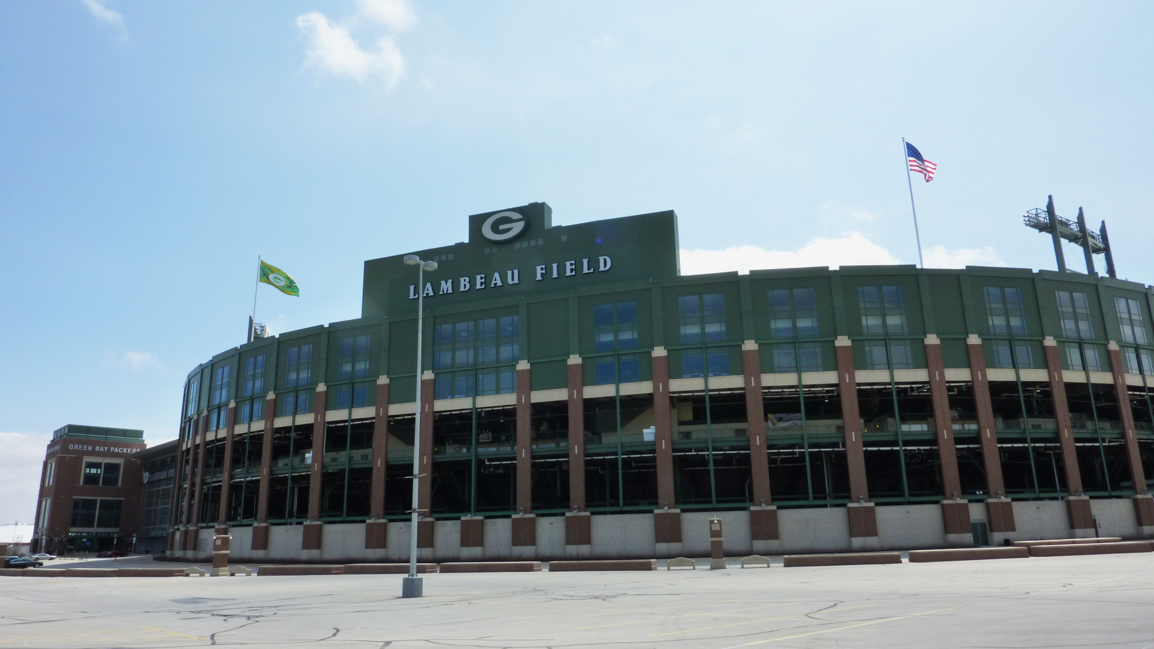 Exterior image of Lambeau Field, home of the Green Bay Packers